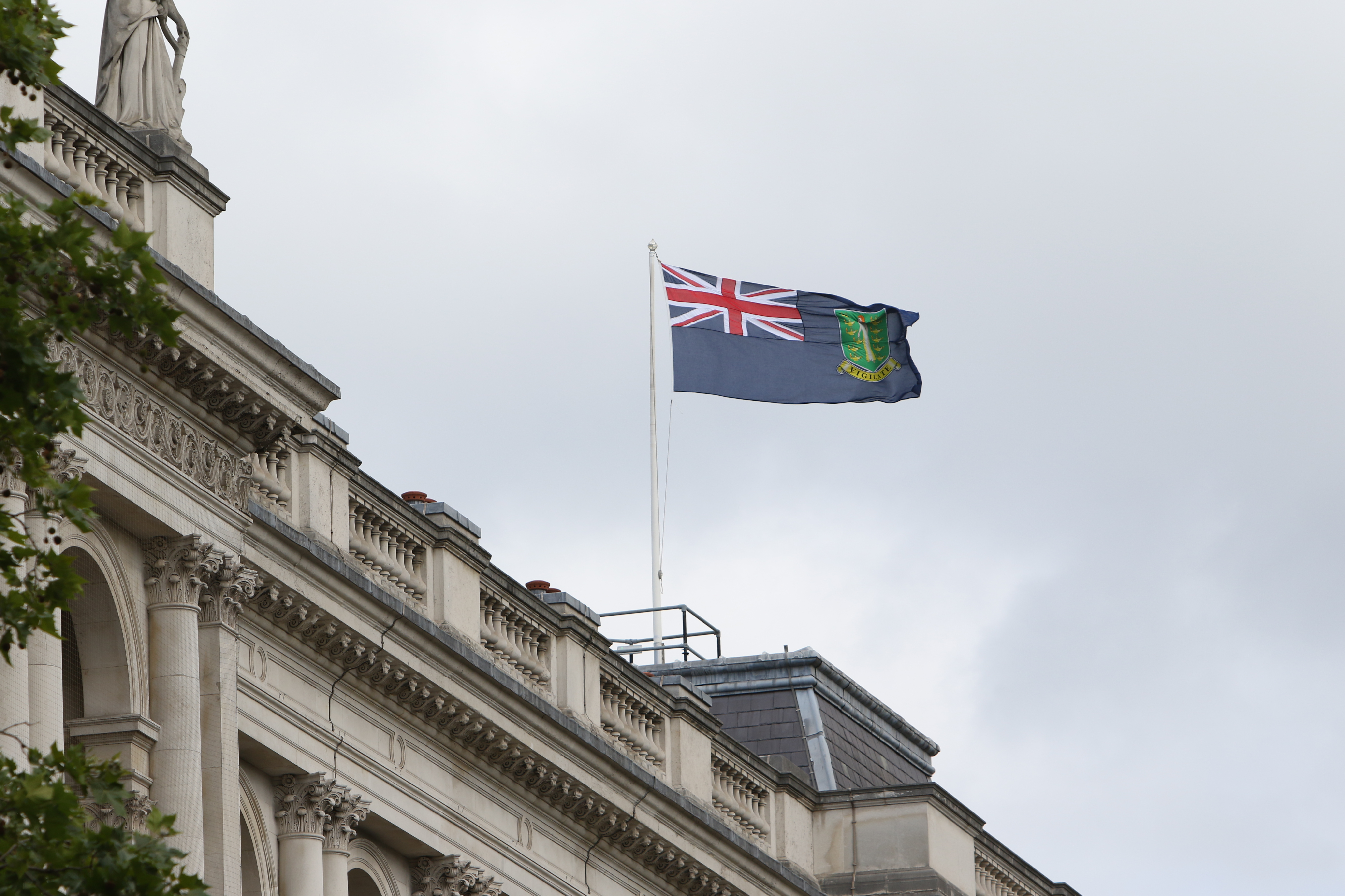 The flag of British Virgin Islands flies on the Foreign Office building in London, 1 July 2019.